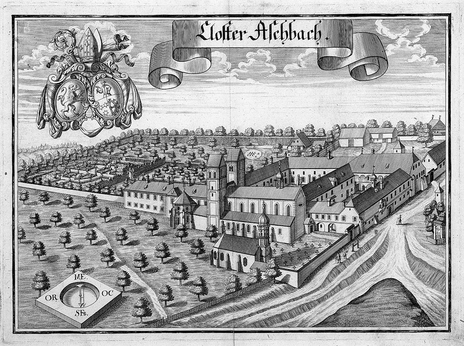 Michael Wening: Kloster Aschbach (=Kloster Asbach, Rotthalmünster, Bavaria, Germany, aus Historico-topographica descriptio Bavariae, ca 28 x 38 cm